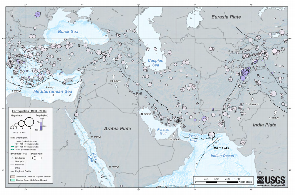 Earthquakes M5.5+ (1900-2016) middle east Circle sizes indicate Magnitude, and colors indicate their depth.